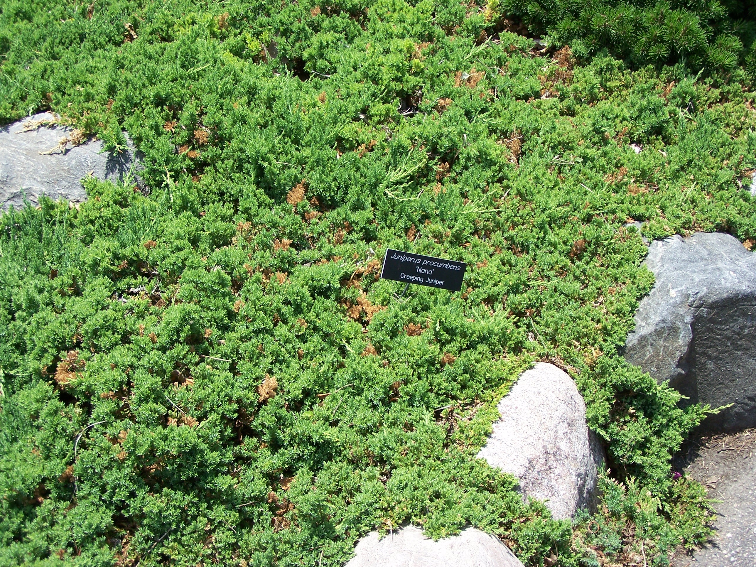 Juniperus procumbens 'Nana' Creeping Juniper at Minnesota Landscape Arboretum